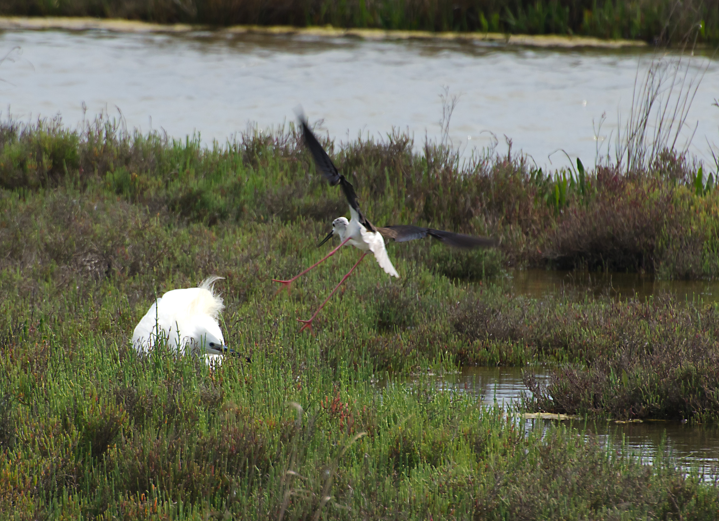 Black-winged stilt (Himantopus himantopus) attacks a little egret (Egretta garzetta). Lagoon of Venice.